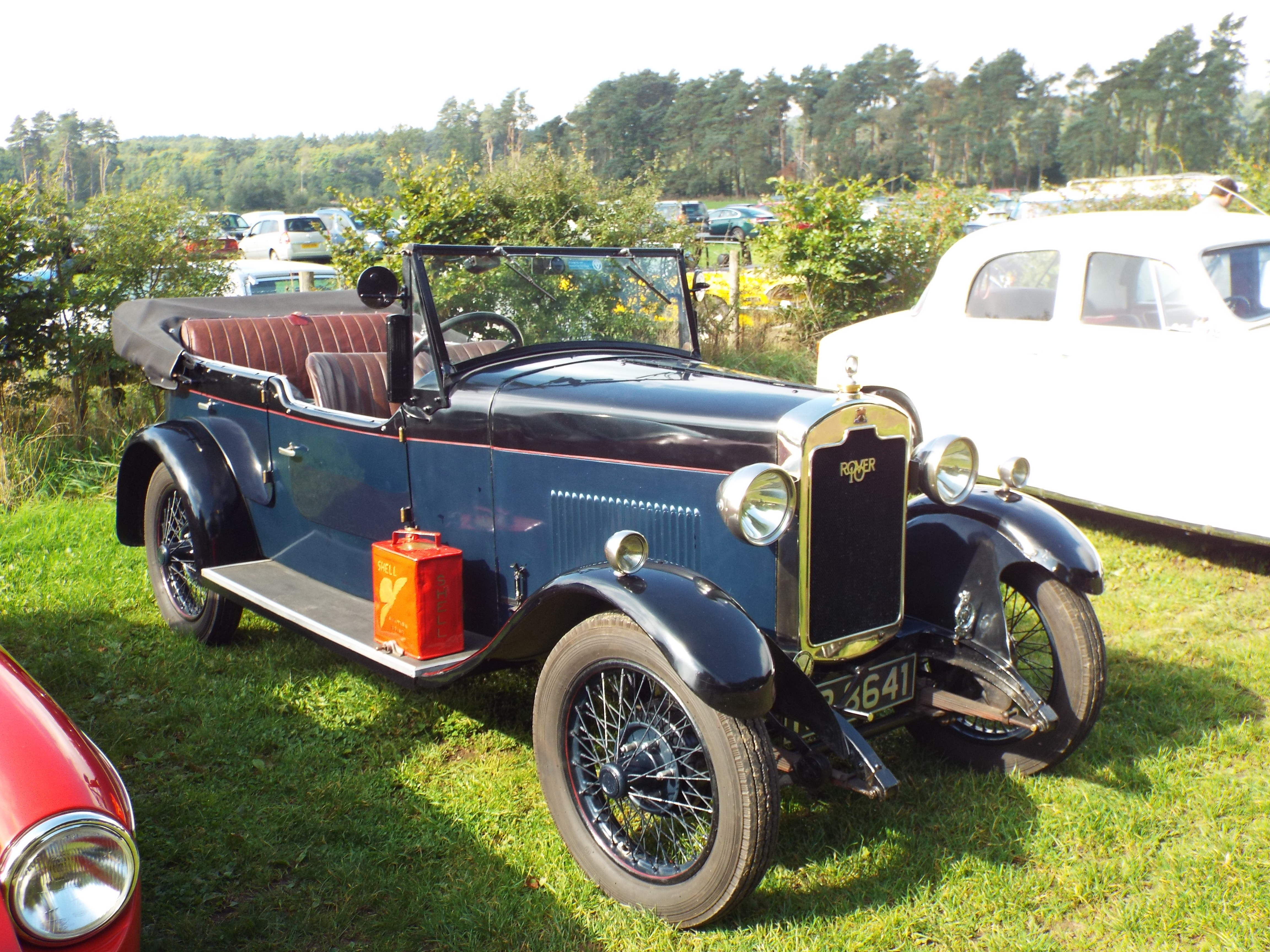 1929 Rover 10 Open 4-seater Sports Tourer(DVLA) first registered 15 July 1929, 1141 cc 2006 - Amberley Autumn Vintage Vehicle Show